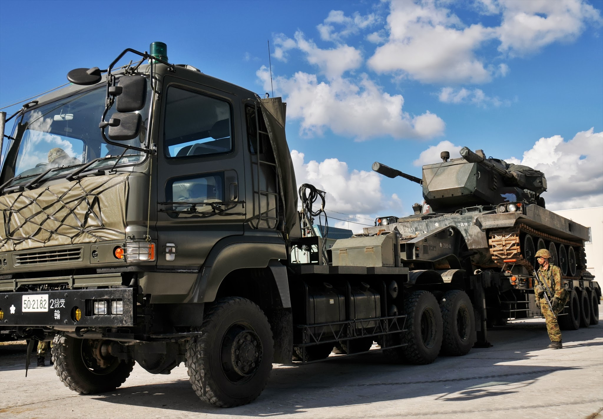 Title 特大型セミトレーラけん引車及び７３式特大型セミトレーラ24.08.27~09.12 ＮＡ・方面隊総合戦闘訓練 ICB_2191 2.JPG Album 装備 特大型セミトレーラけん引車及び７３式特大型セミトレーラ（北部方面隊総合戦闘訓練・第２後方支援連隊）